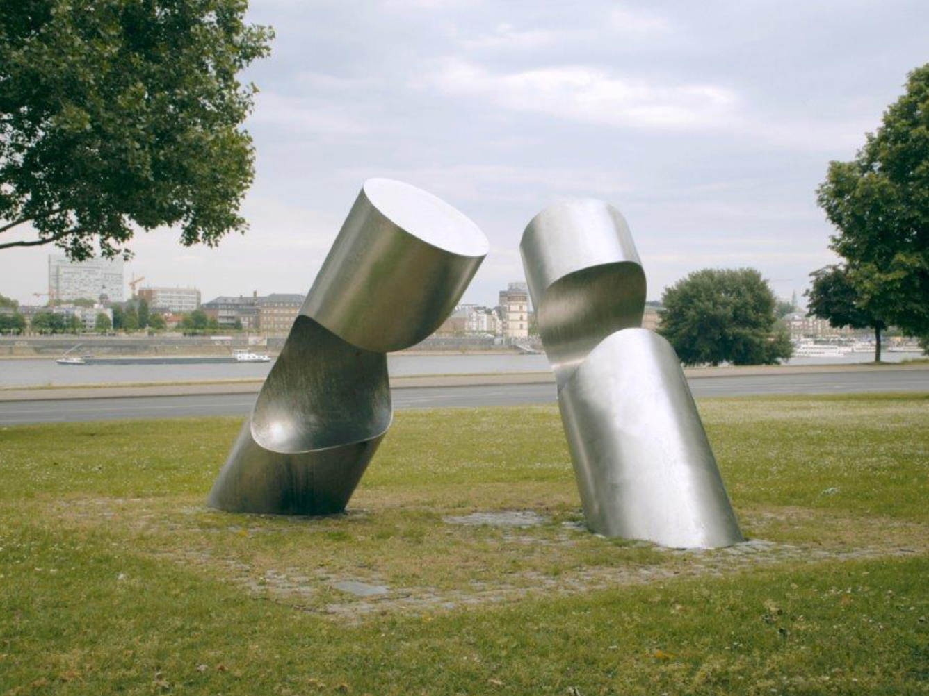 Plastik Durchdringung 78, Peter Schwickerath, Düsseldorf